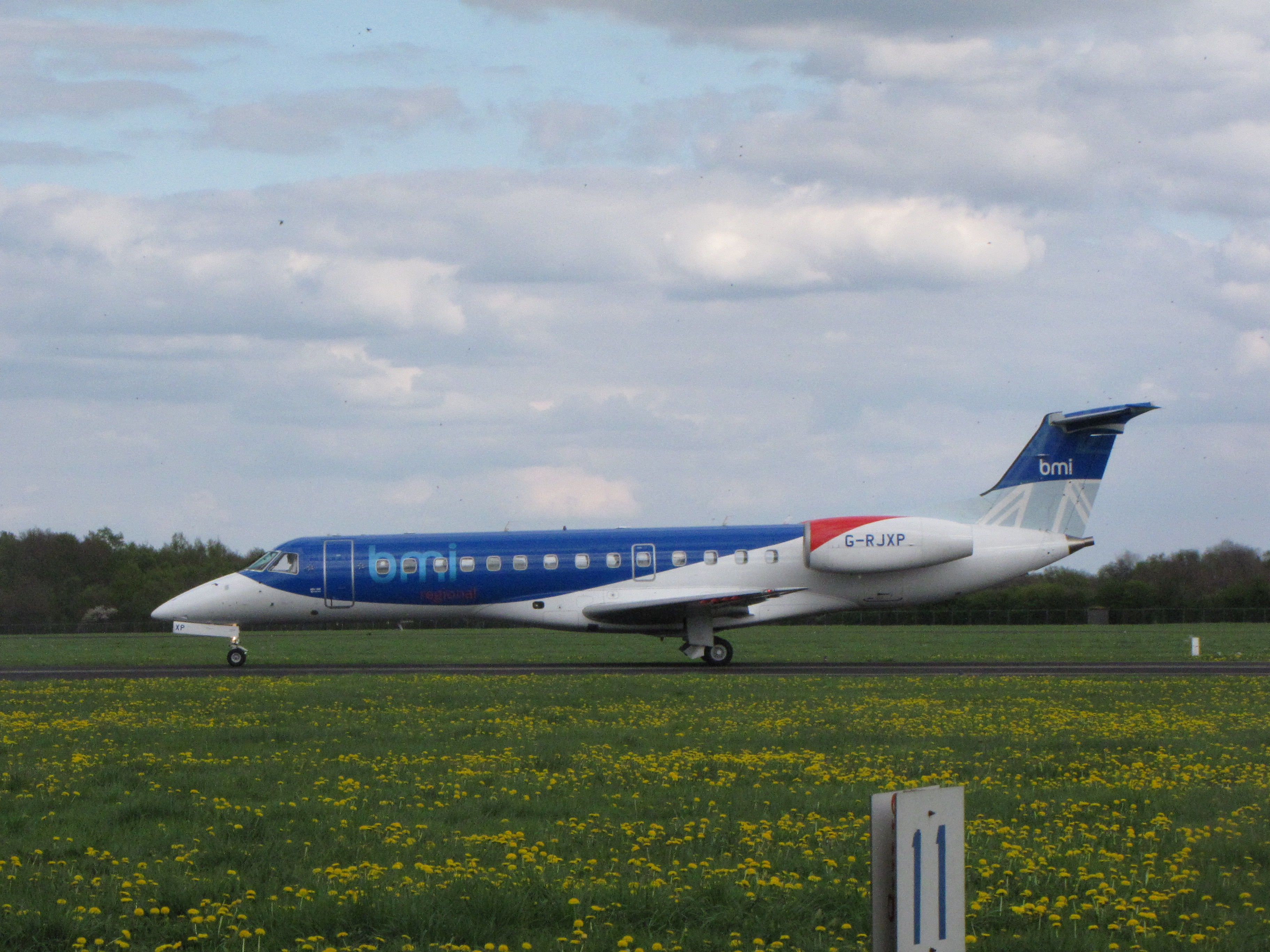 Embraer EMB-135ER (ERJ-135ER) on Groningen Airport Eelde